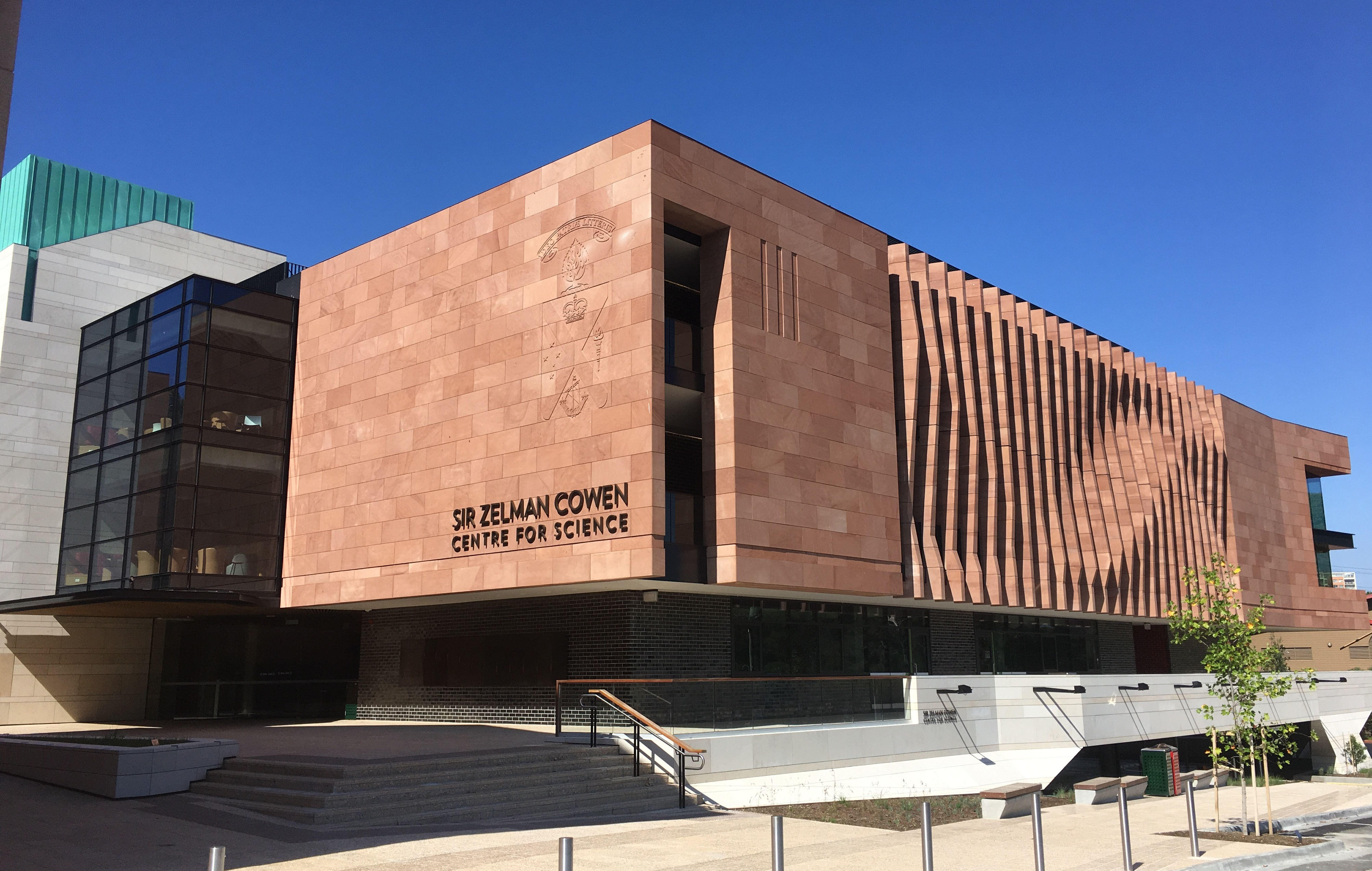 Scotch College, Melbourne. Sir Zelman Cowen Centre for Science - 2017